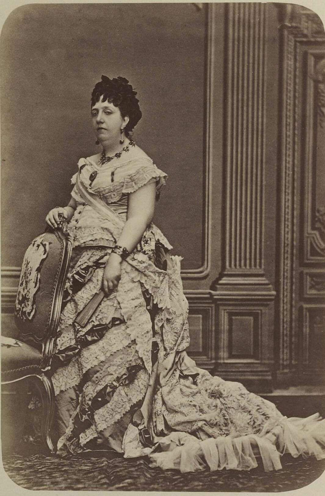 Maria Cristina, Infanta of Spain and Portugal